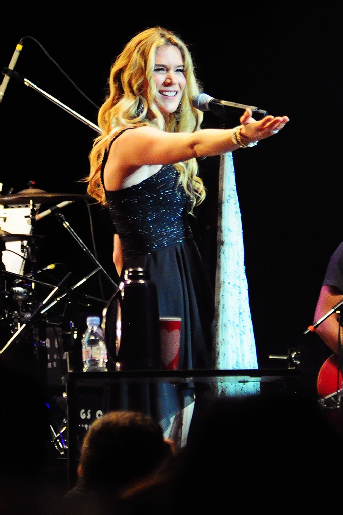 Joss Stone in concert - Buenos Aires, Argentina - Stadium Luna Park - March 8, 2015 - Total World Tour